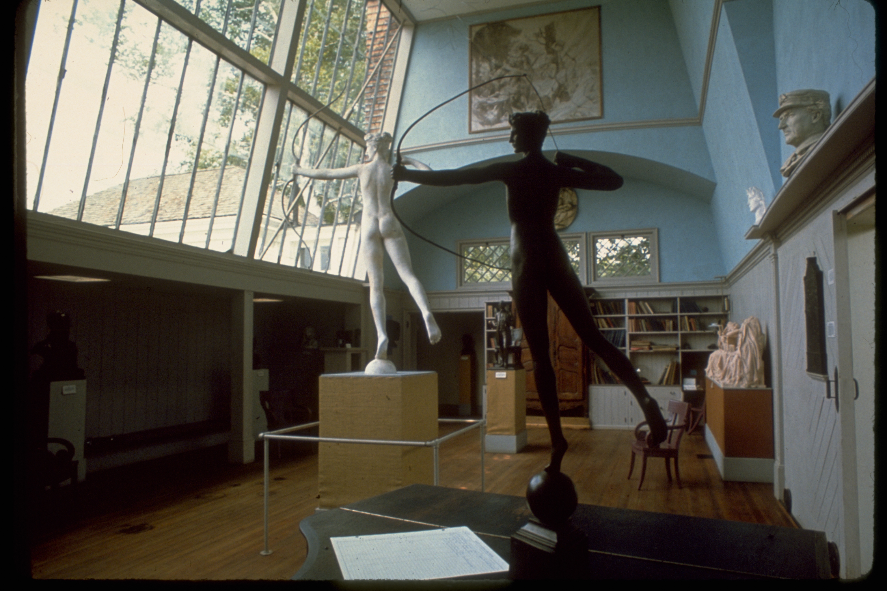 Discover the beautiful home, studios and gardens of Augustus Saint-Gaudens, one of America’s greatest sculptors. Over 100 of his artworks can be seen in the galleries, from heroic public monuments to expressive portrait reliefs, and the gold coins which changed the look of American coinage.